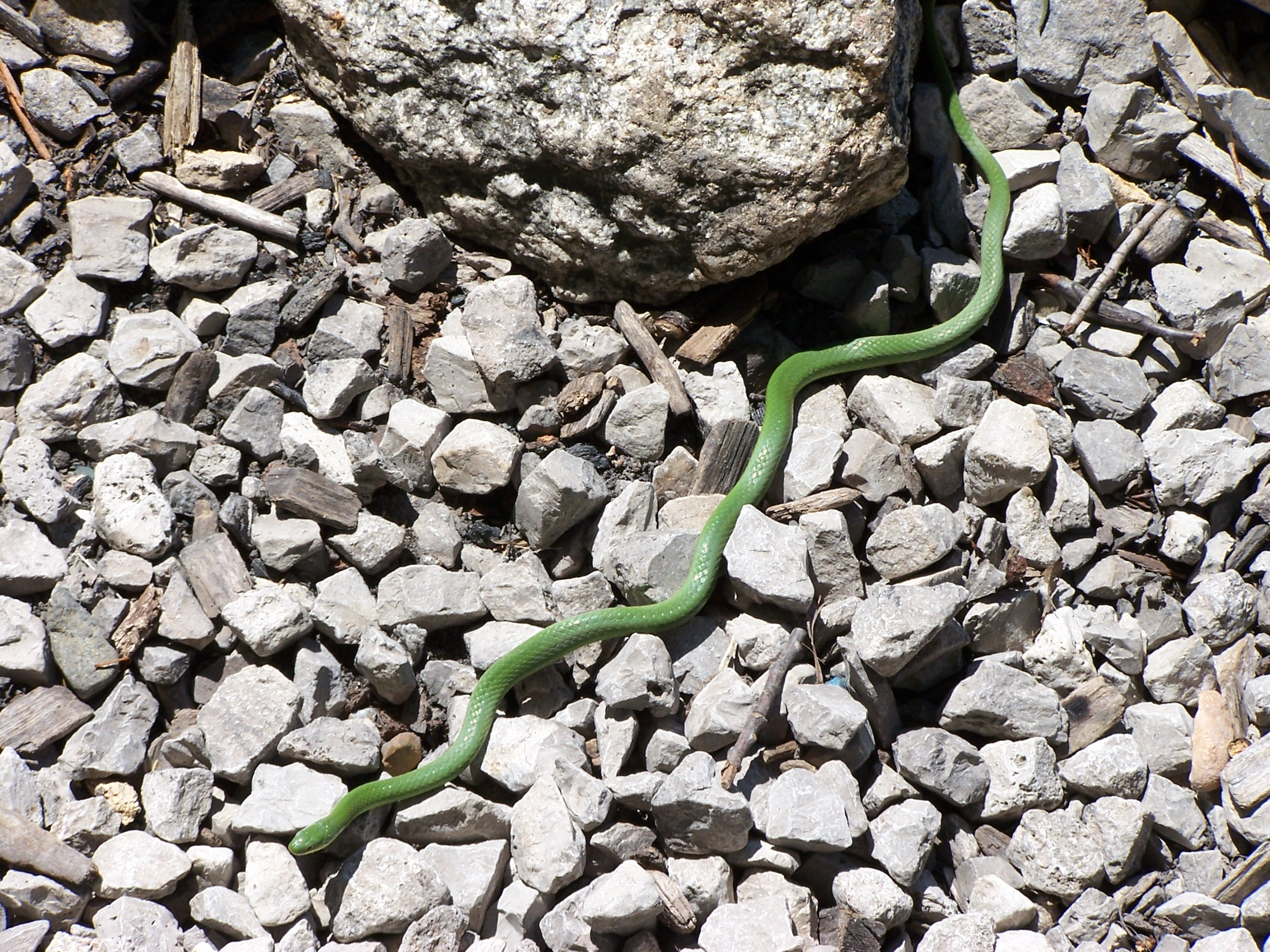 I took this photo my self, this Rough Green Snake (Opheodrys aestivus) was photographed in Michigan.